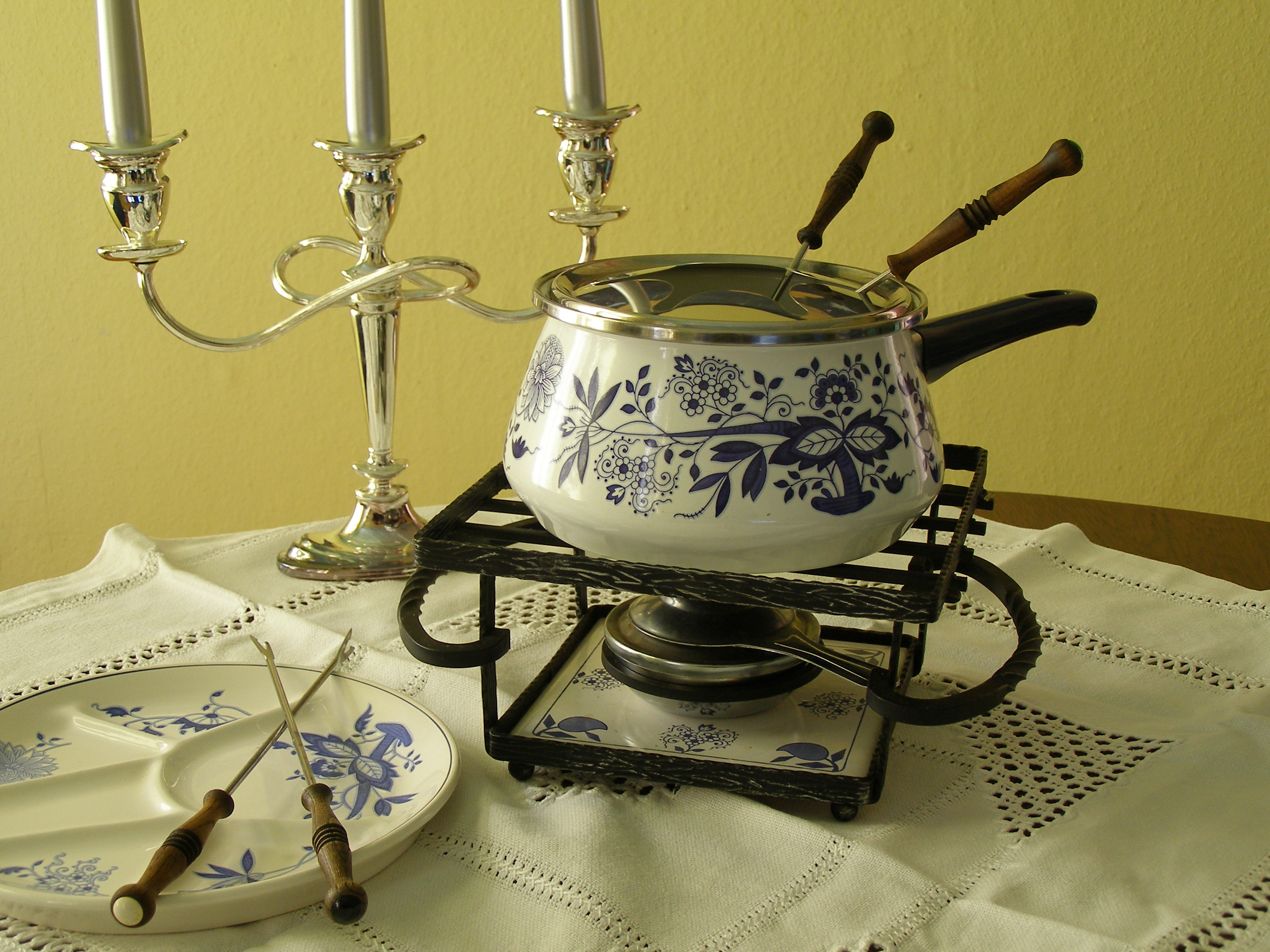 Set for the meat fondue (spiritus rechaud)